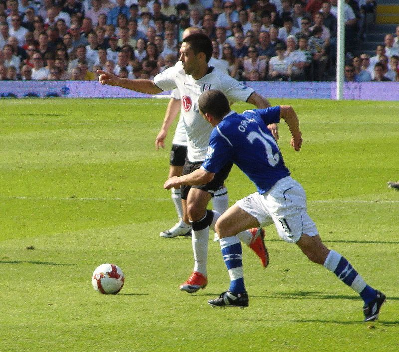 Clint Dempsey against Leon Osman of Everton